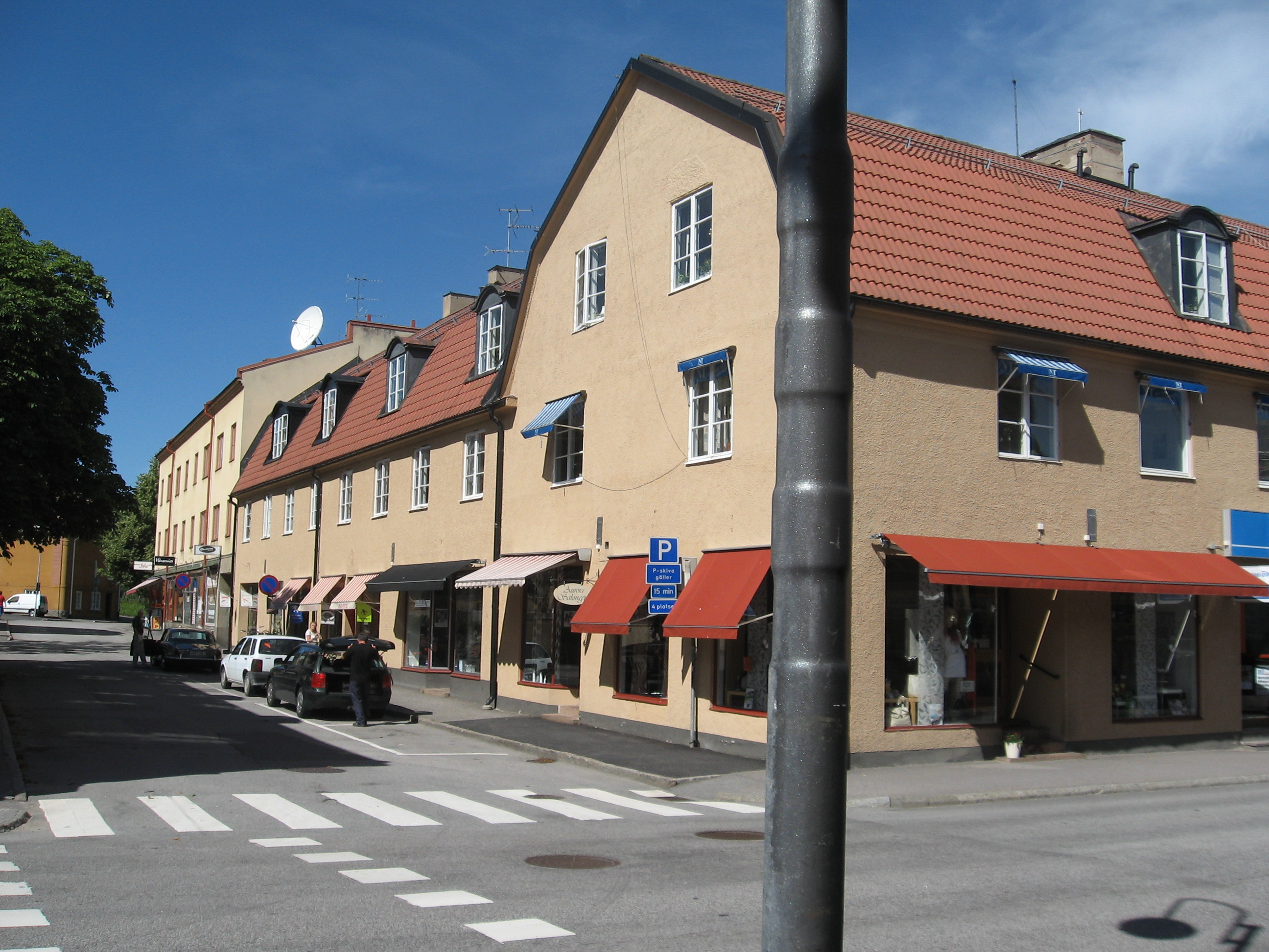 A warm summer day in Finspång, Sweden, typical buildings